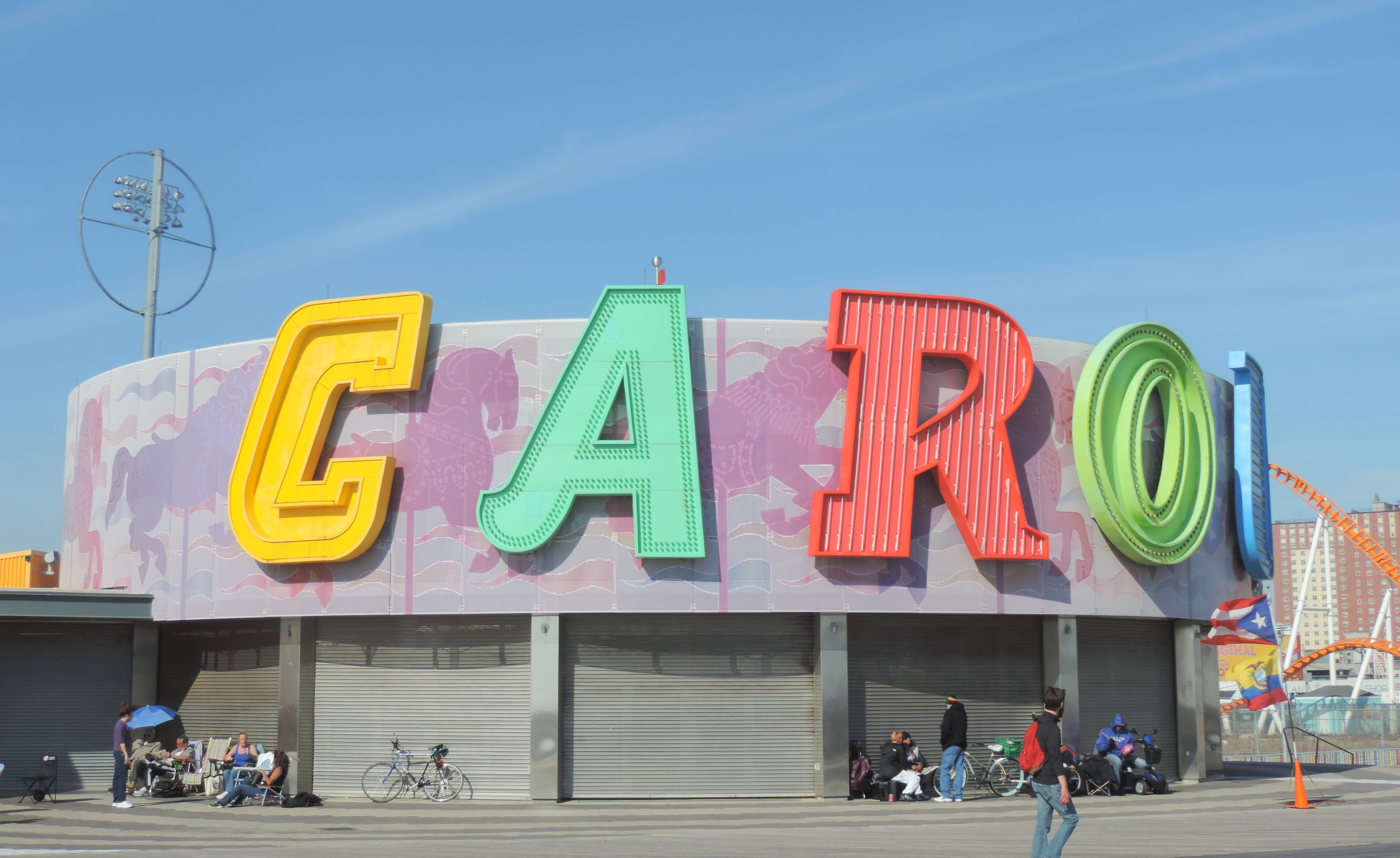 Looking north across boardwalk at B&B Carousel on a sunny winter afternoon